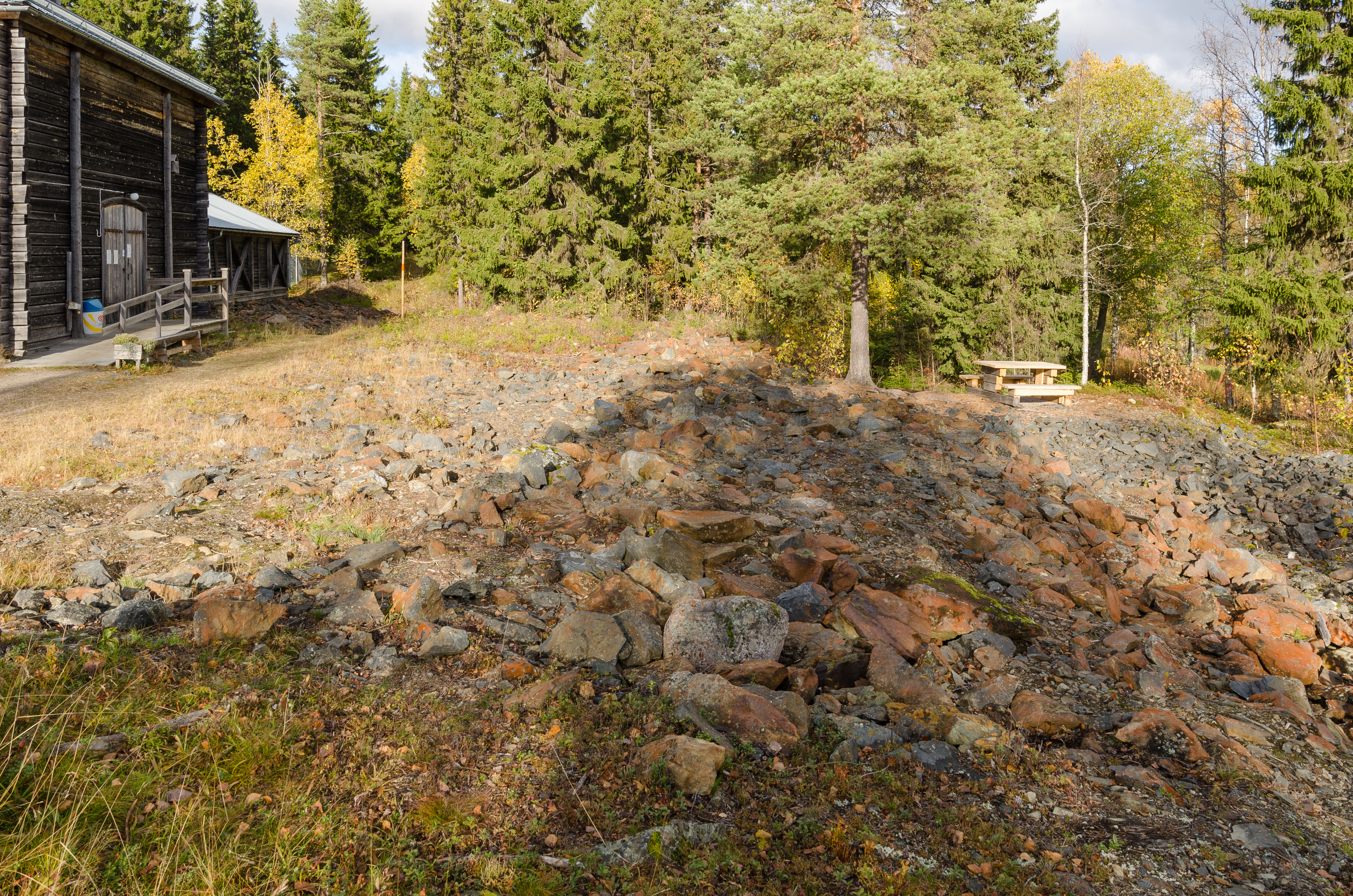 The site of former Los cobalt mine. Ljusdal Municipality, Gävleborg County, Sweden. In 1751, the swedish scientist Axel Cronstedt found evidence of Nickel when examining ore from the mine.